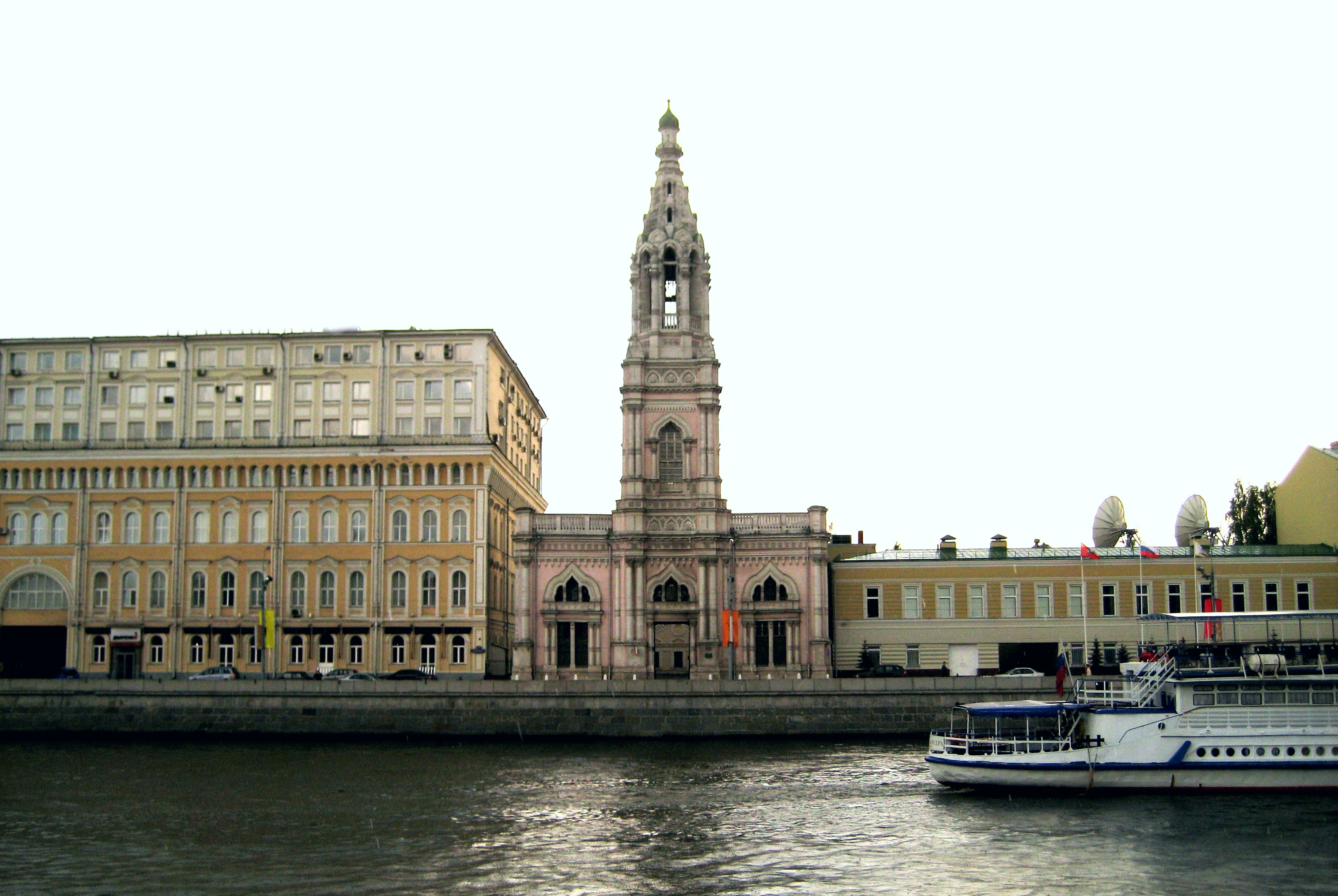 Church of S.Sophia (Sofiyskaya Embankment).